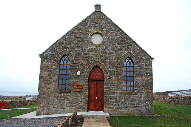 Community Building, Eday Absolutely gorgeous inside. A converted chapel.